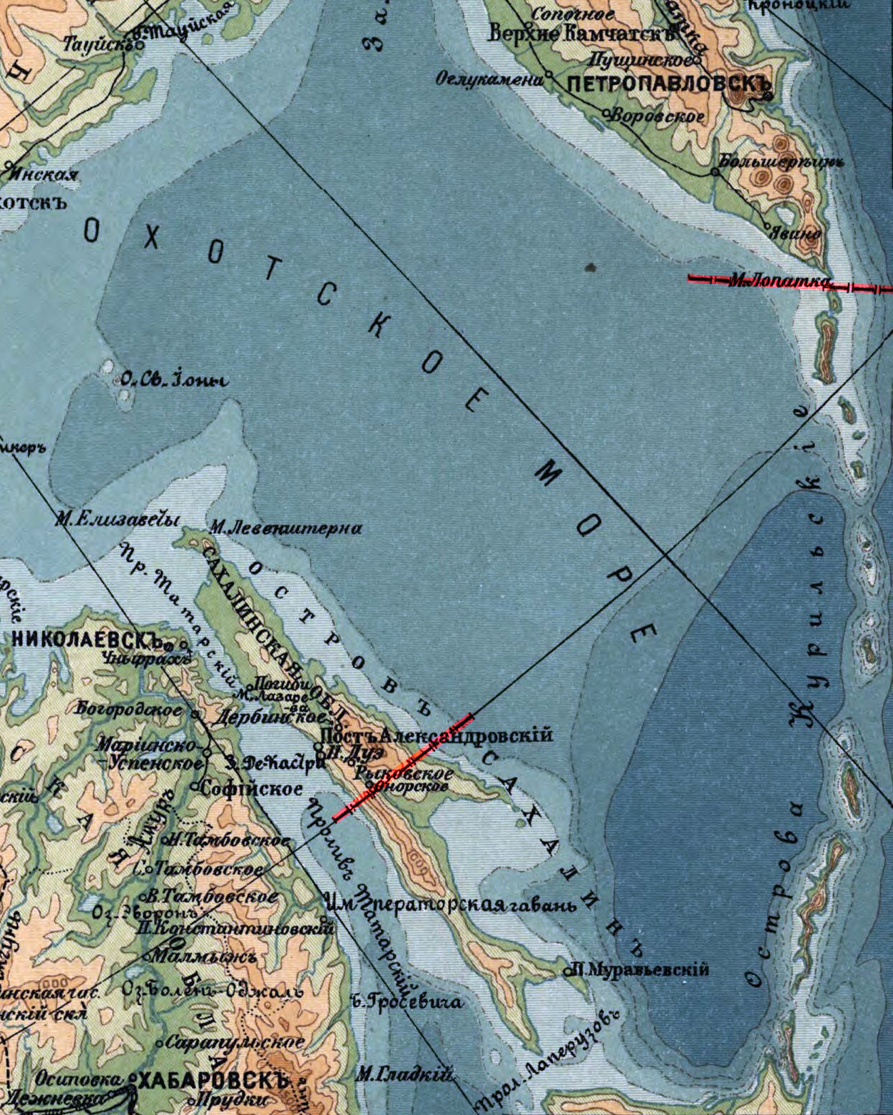 Gipsomietričieskaja karta Rossījskoj Impierīi : (opyt izobražienīja riel'iefa Impierīi) / sostavil JU. M. Šokal'skīj. Šokal'skīj, JU. M. 1856-1940. (JUlij Mihajlovič), CREATED/PUBLISHED [St. Petersburg?] : Izdanīie. Pieriesielienčieskago Upravlienīja Glavn. Upr. Ziemlieustr. i Ziemlied., [1912?] (Piečat. v kartogr. zav. Tva A.F. Marks) NOTES Relief and depths shown by gradient tints. Also shows railroads. In Russian. Pulkovo (St. Petersburg) meridian. Includes table of extreme high elevations. LC copy torn at edge, taped, inscribed in ink by the author in upper margin: The Congress Library, Washington D.C., from J. de Schokalsky in remembrance of 2 visits--1912. Scale 1:12,600,000.